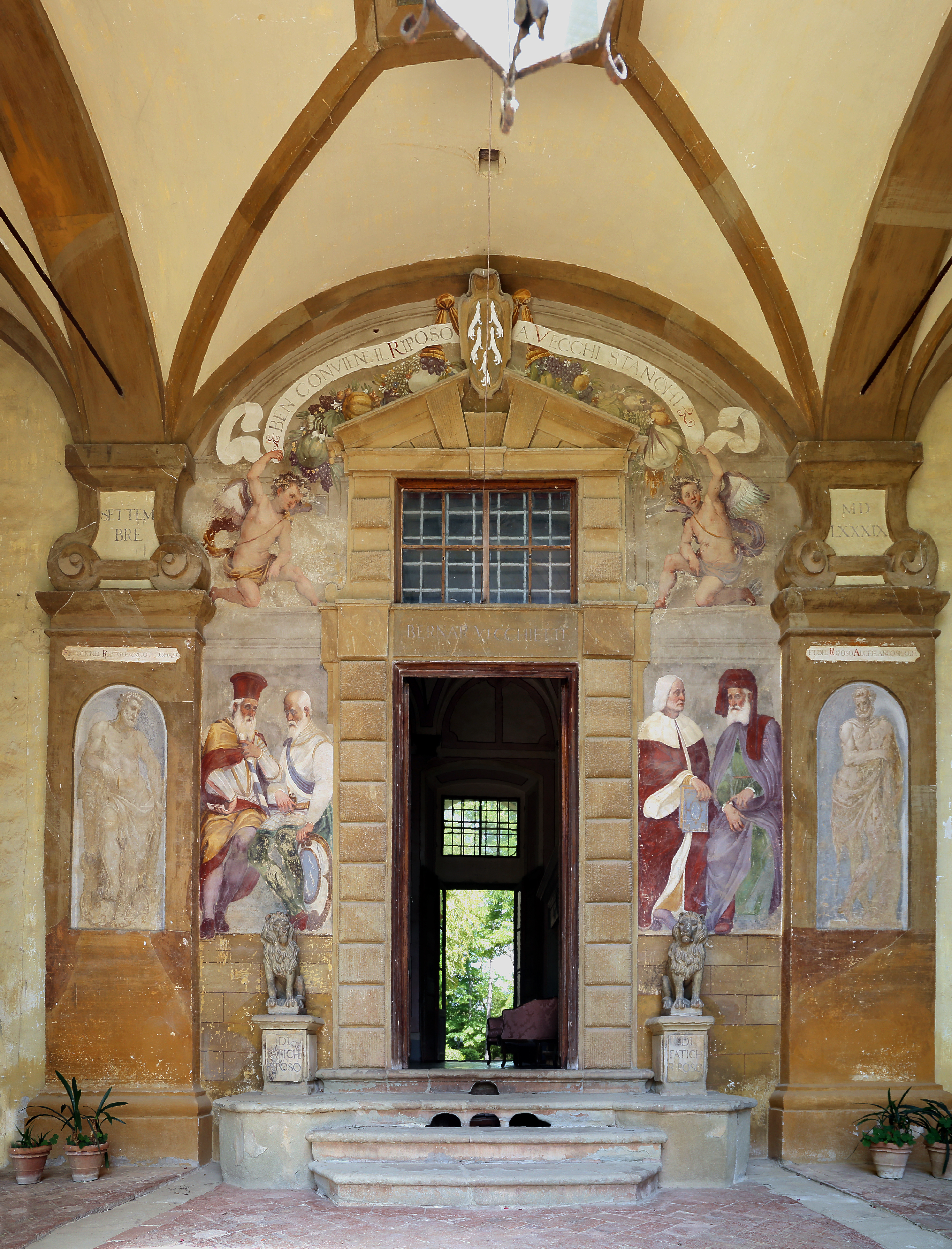 Villa Il Riposo dei Vecchietti - Frescos by Santi di Tito